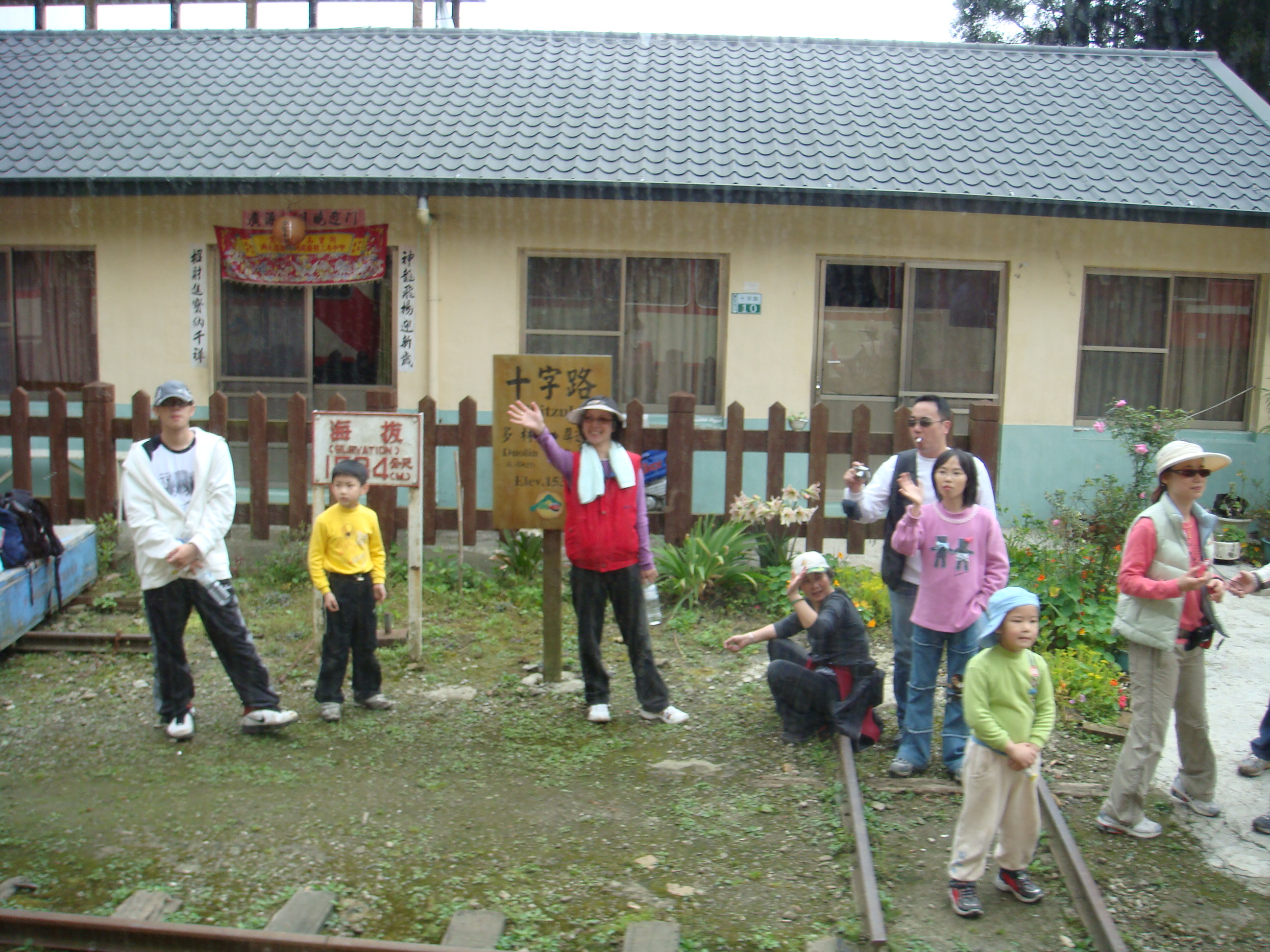 Alishan Forest Railway Shihzihlu Station 阿里山森林鐵路十字路車站